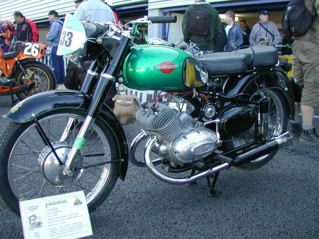 An old Radior motorcycle Author Gerard Delafond